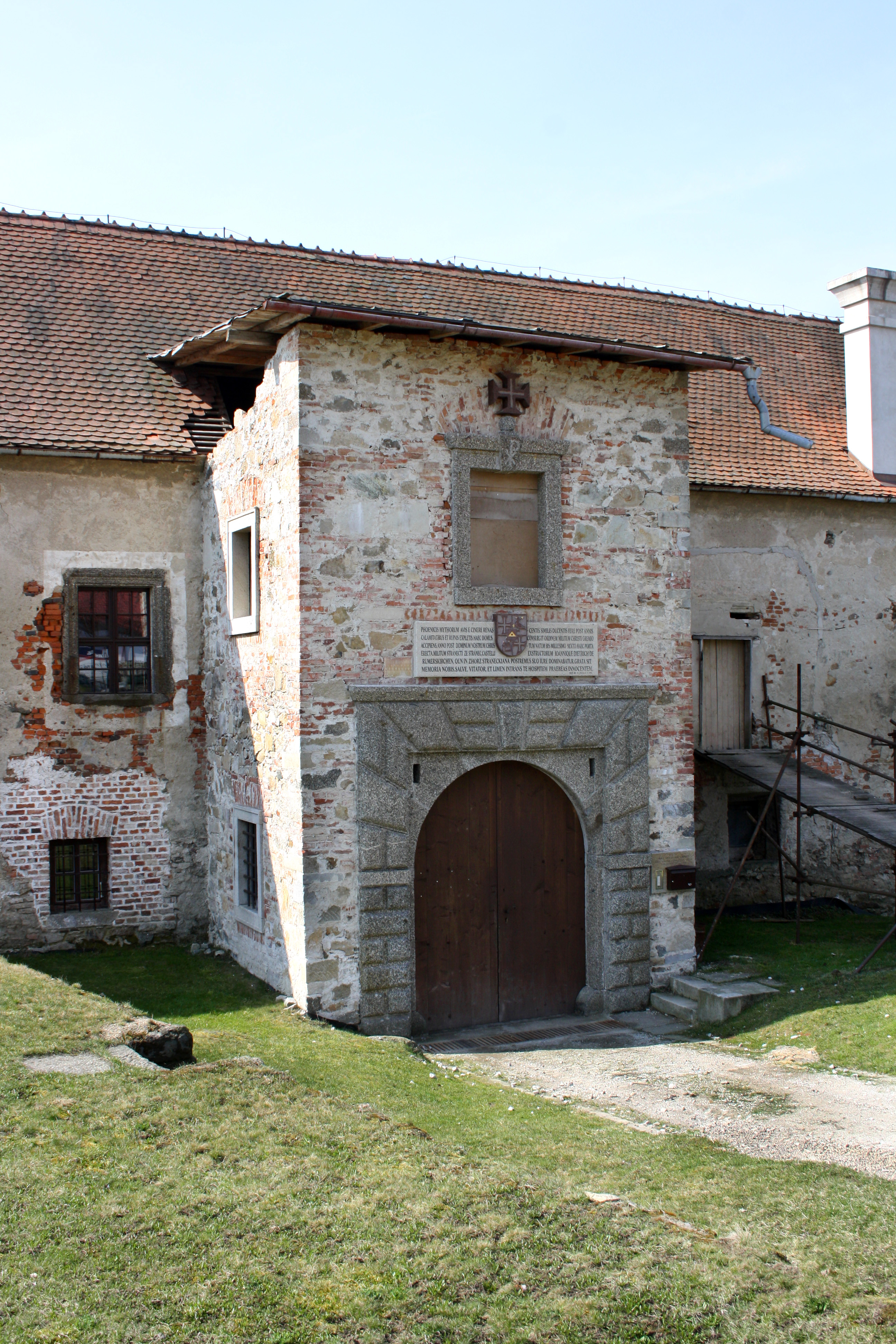 Entrance of Stránecká Zhoř Castle in Stránecká Zhoř